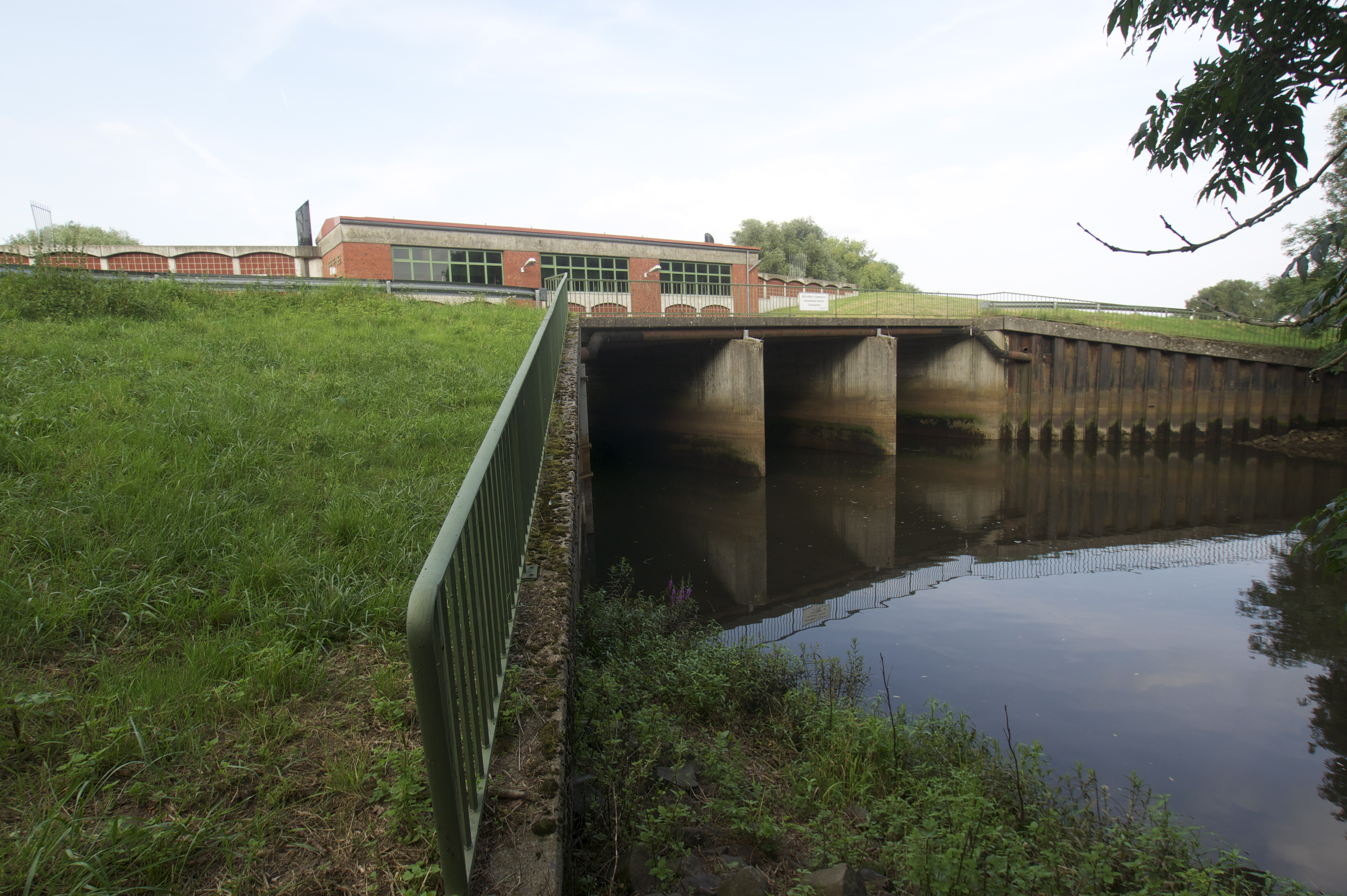 Stelle (Over), Germany: Drainage sluse at the confluence of the Seeve and the Elbe at the border with Wuhlenburg